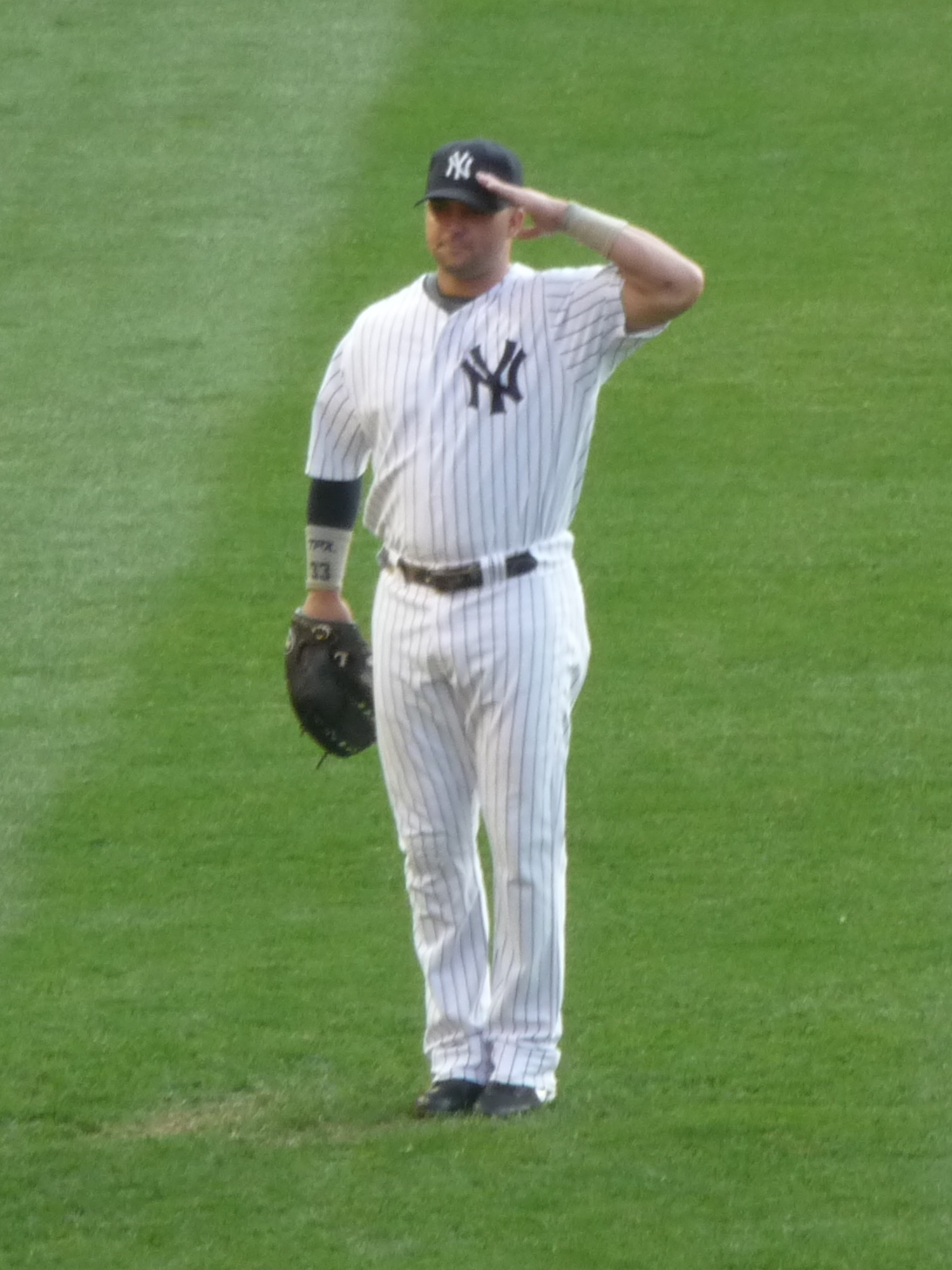 Nick Swisher salutes the crowd during roll call at the June 8, 2009 Yankee game vs. the Tampa Bay Rays 20:54, 9 June 2009 . . Wheels897 . . 1,092×1,456 (442 KB)